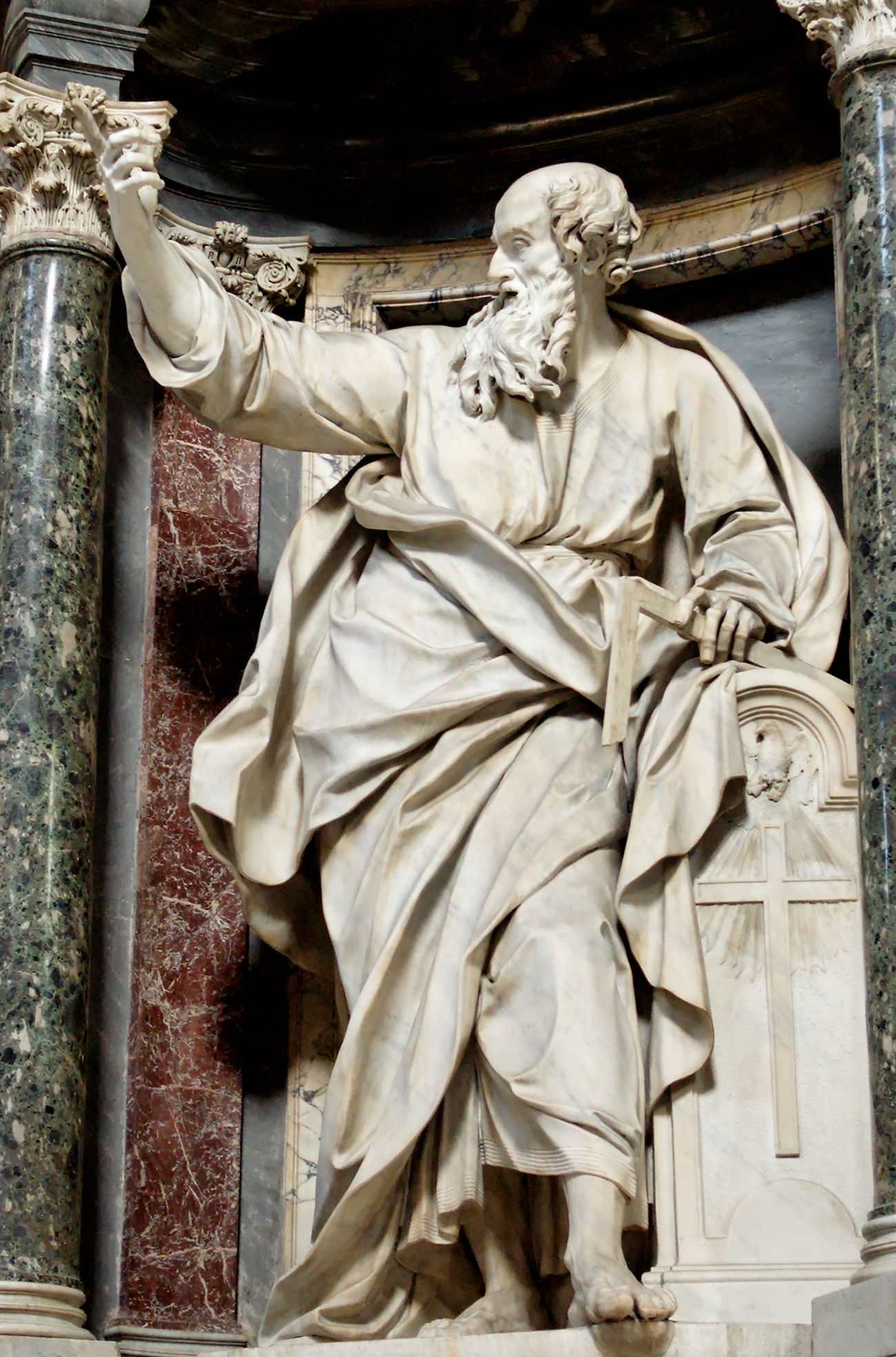 St. Thomas by Pierre Le Gros the Younger. Nave of the Basilica of St. John Lateran (Rome).